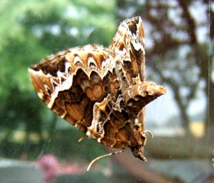 Eulithis prunata moth, wingspan 27mm.